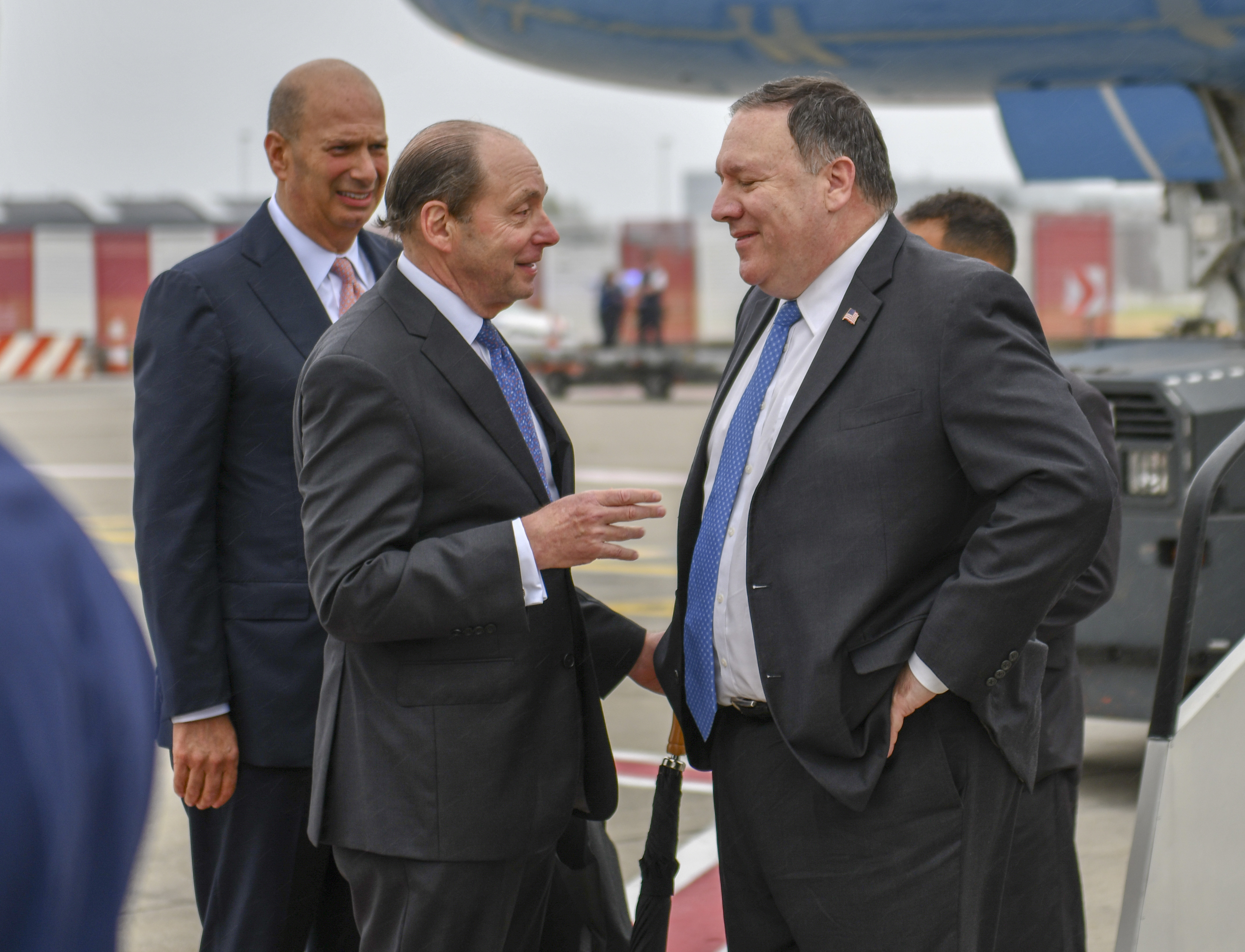 U.S. Secretary of State Michael R. Pompeo chats with U.S. Ambassador to the Belgium Ronald Gidwitz upon arrival to Brussels, Belgium on July 10, 2018. [State Department photo/ Public Domain]